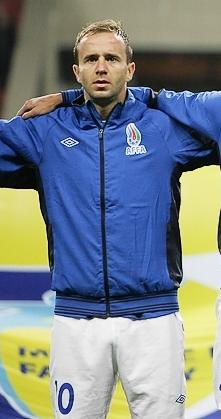 Branimir Subašić playing for Azerbaijan in an 2014 FIFA World Cup qualifier against Russia in Moscow in 2012.